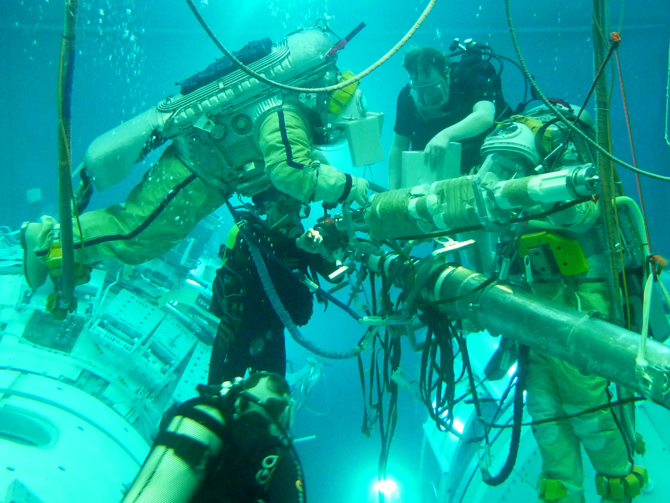 Working on the Strela crane